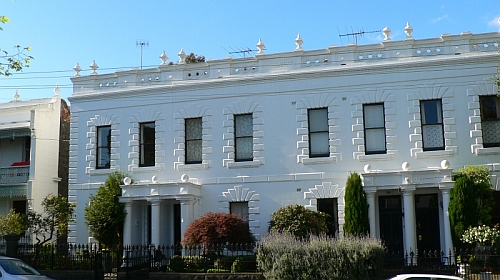 Cyprus Terrace. East Melbourne, Australia